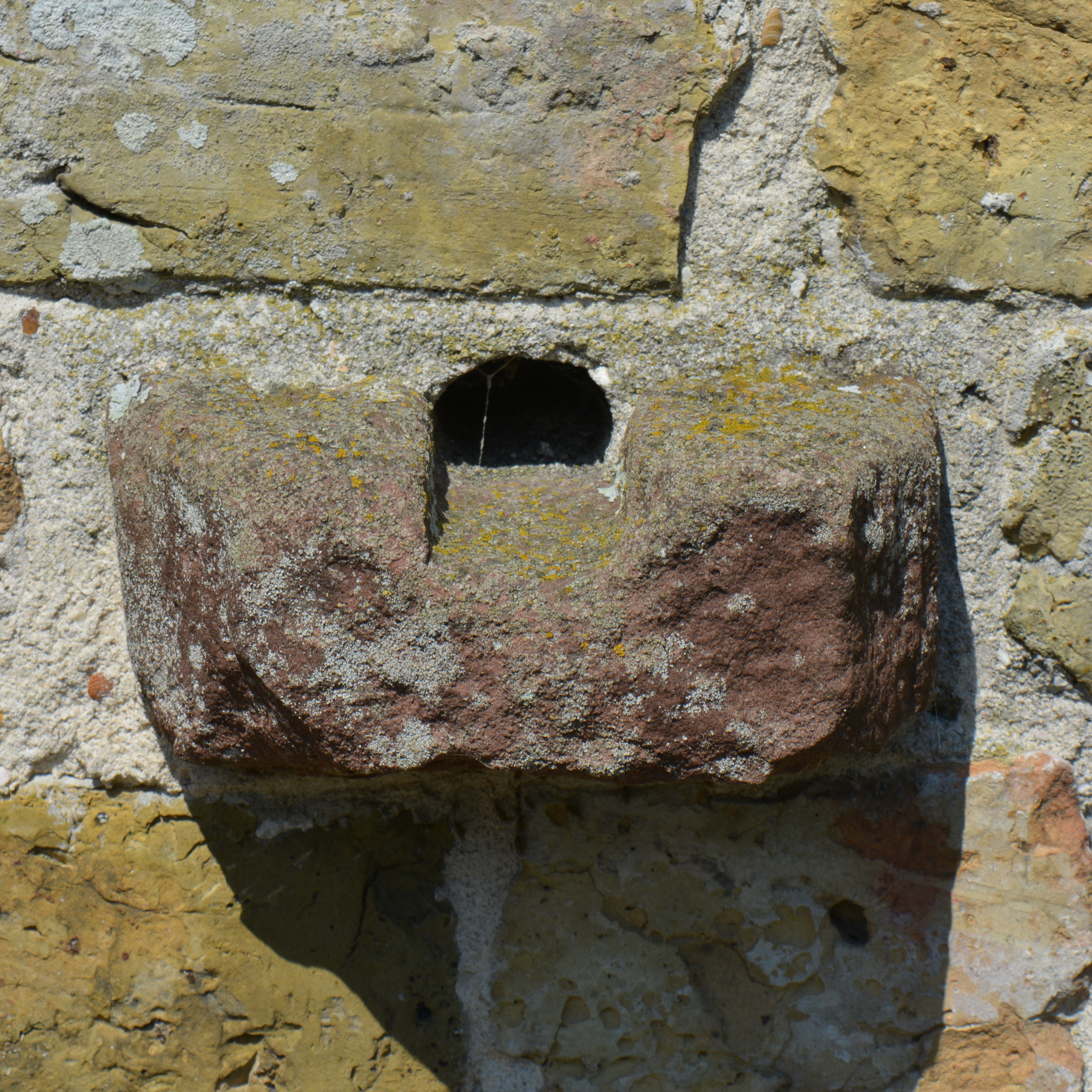 Boksum, Sint-Margrietkerk, afvoer piscina